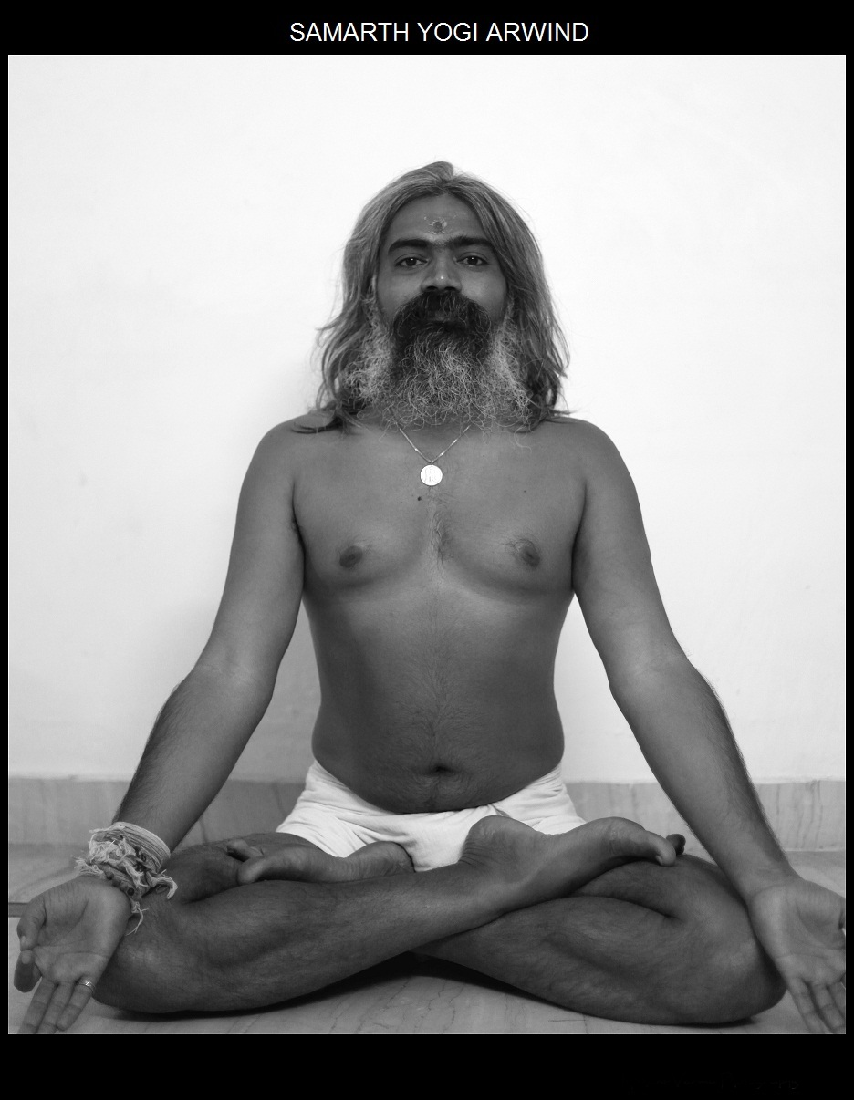 Samarth Yogi Arwind in Jnyana Mudra